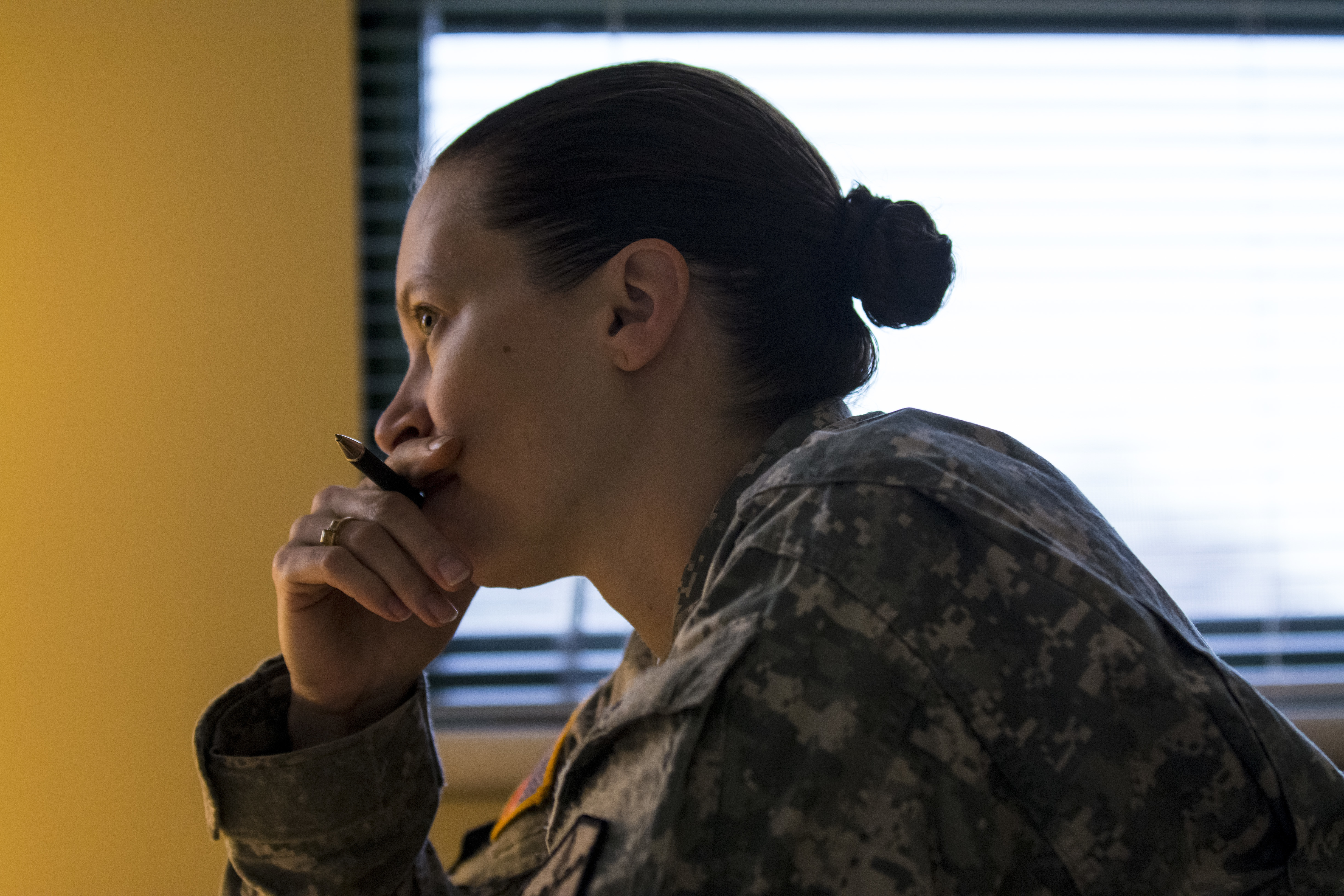 First Sgt. Raquel Steckman is the first woman in the Army appointed to a combat engineer company as a first sergeant, now with the 374th Engineer Company (Sapper), headquartered in Concord, Calif. (U.S. Army photo by Sgt. 1st Class Michel Sauret)